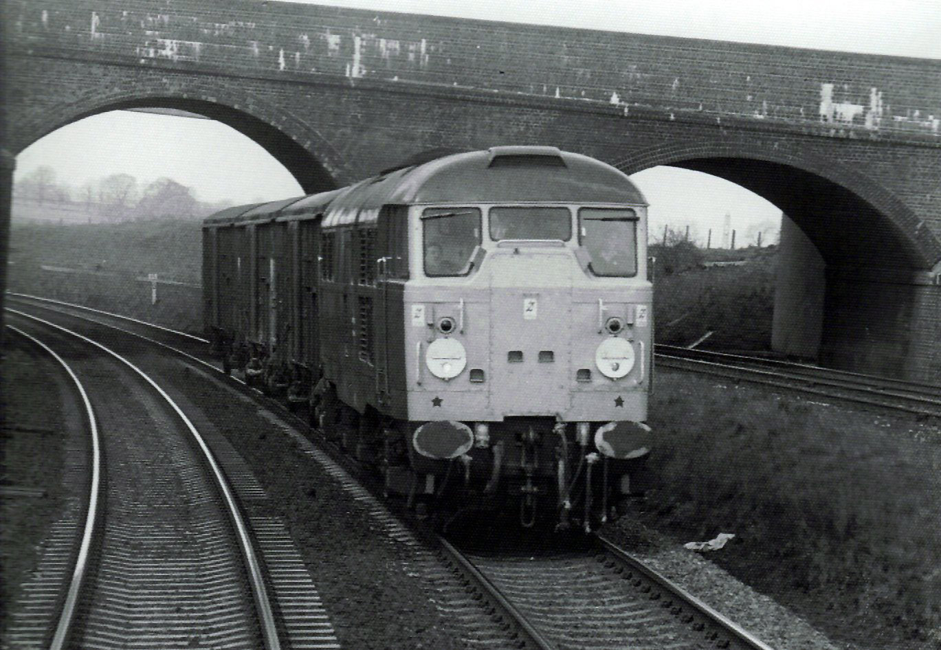 British Rail Class 31